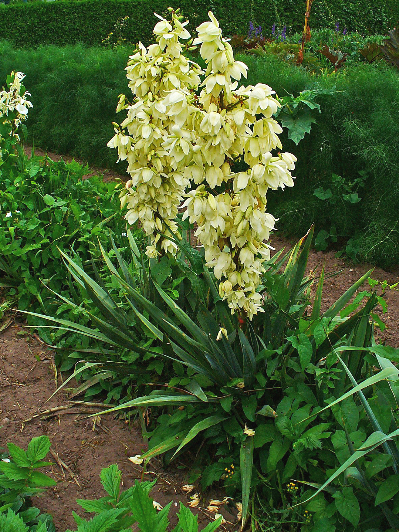 Yucca filamentosa, Agavaceae, Adam's needle, habitus.